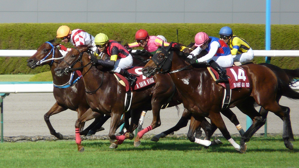 A-Shin-Virgo20110911(2)